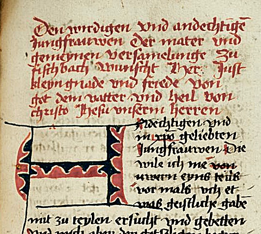 Widmung eines Manuskripts von 1529 an den Konvent des Klosters Fischbach